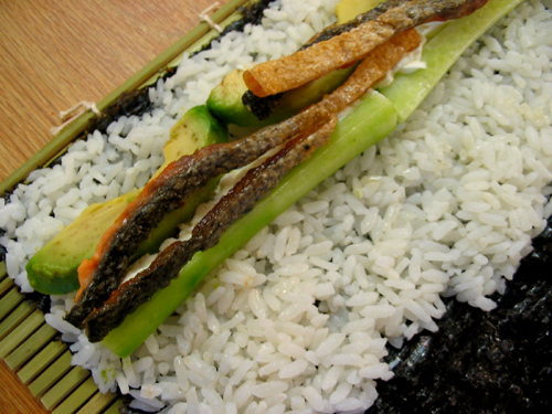 Roll Maki Sushi